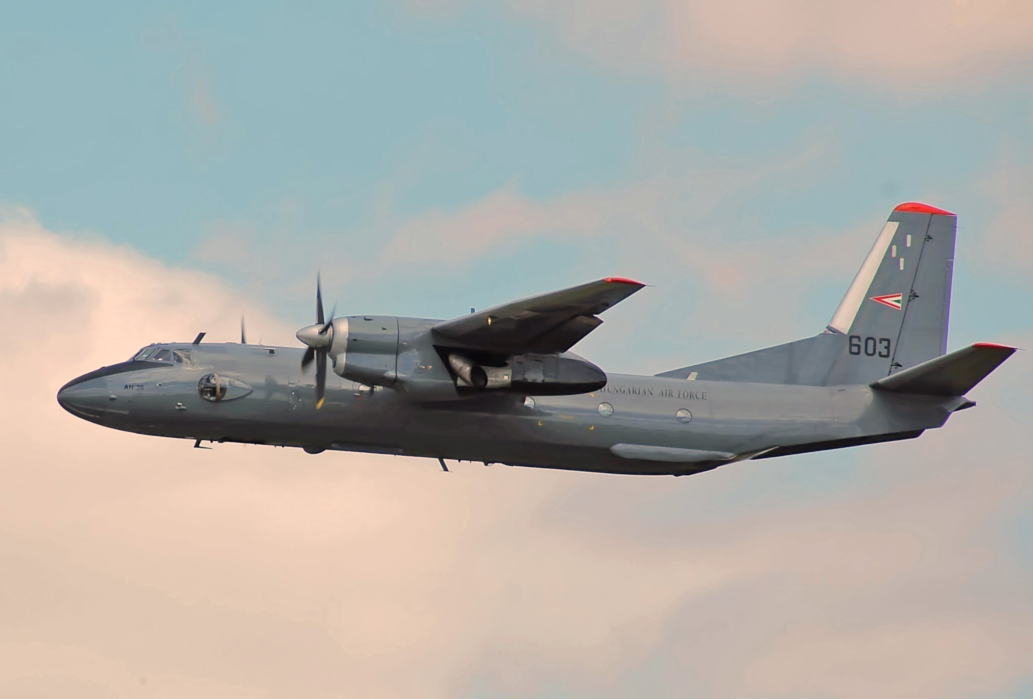 Hungarian Air Force Antonov An-26 departs RAF Fairford, Gloucestershire, England during the Royal International Air Tattoo departures day.